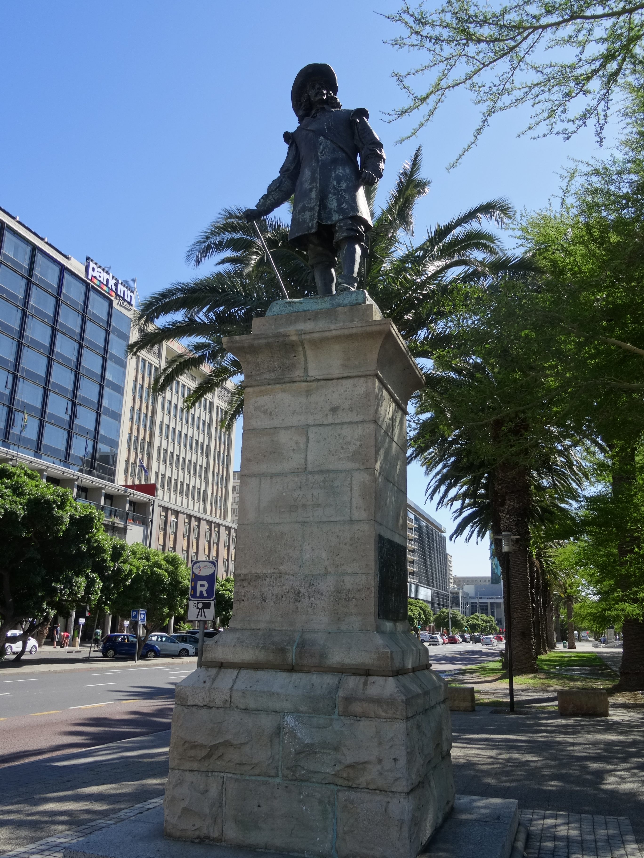 Riebeeck Statue in Cape Town